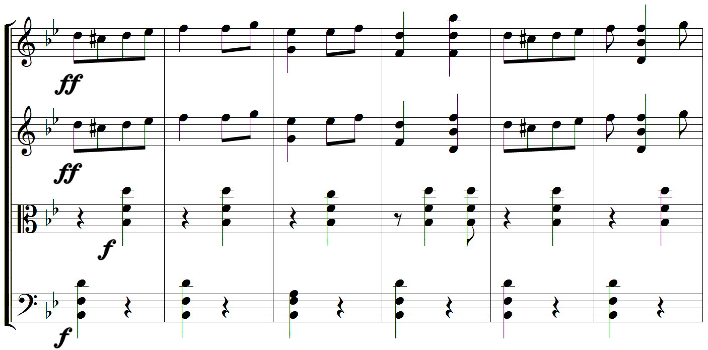 Maurice Emmanuel - String Quartet, op.8, 3rd movement Allegro con fuoco alla zingarese, pizzicato section (bar.30 etc.)